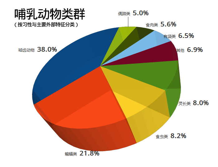 Rough chart of Mammalia structure.